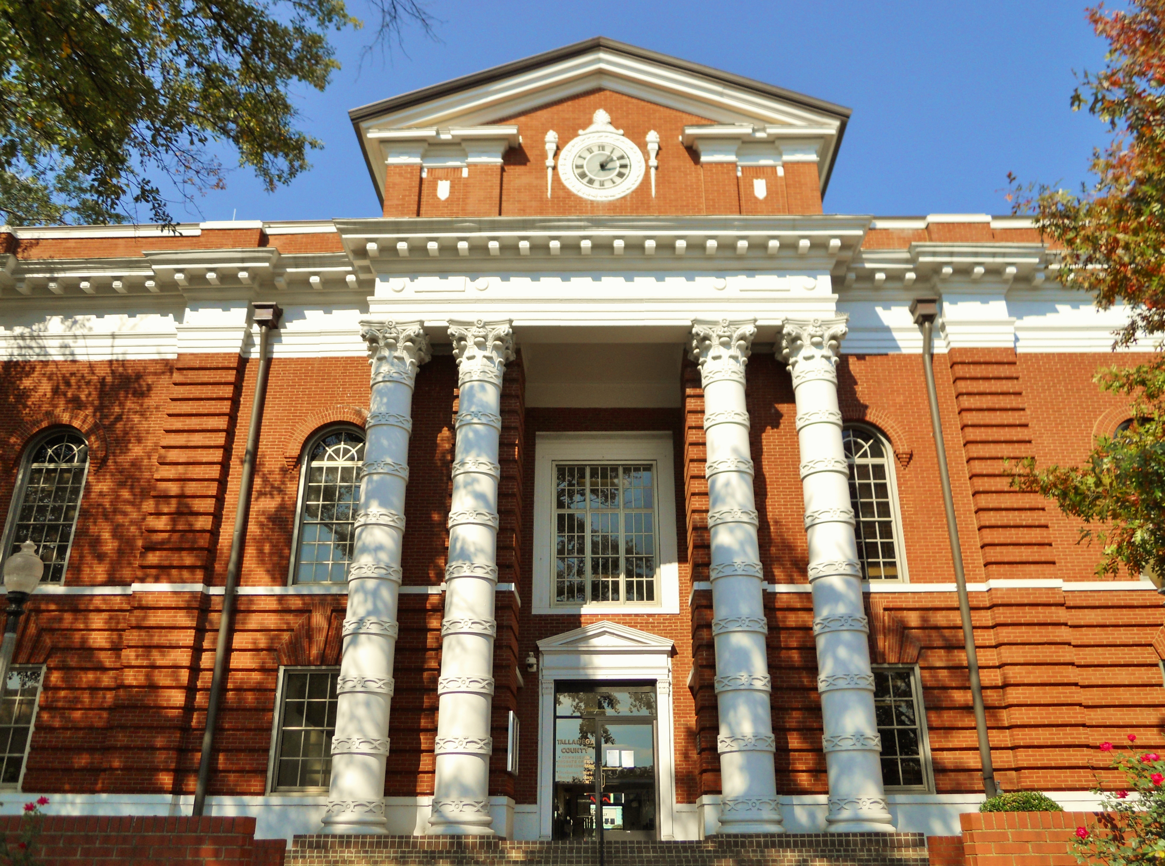 This is a photograph of the Talladega County Courthouse located in Talladega County, Alabama.